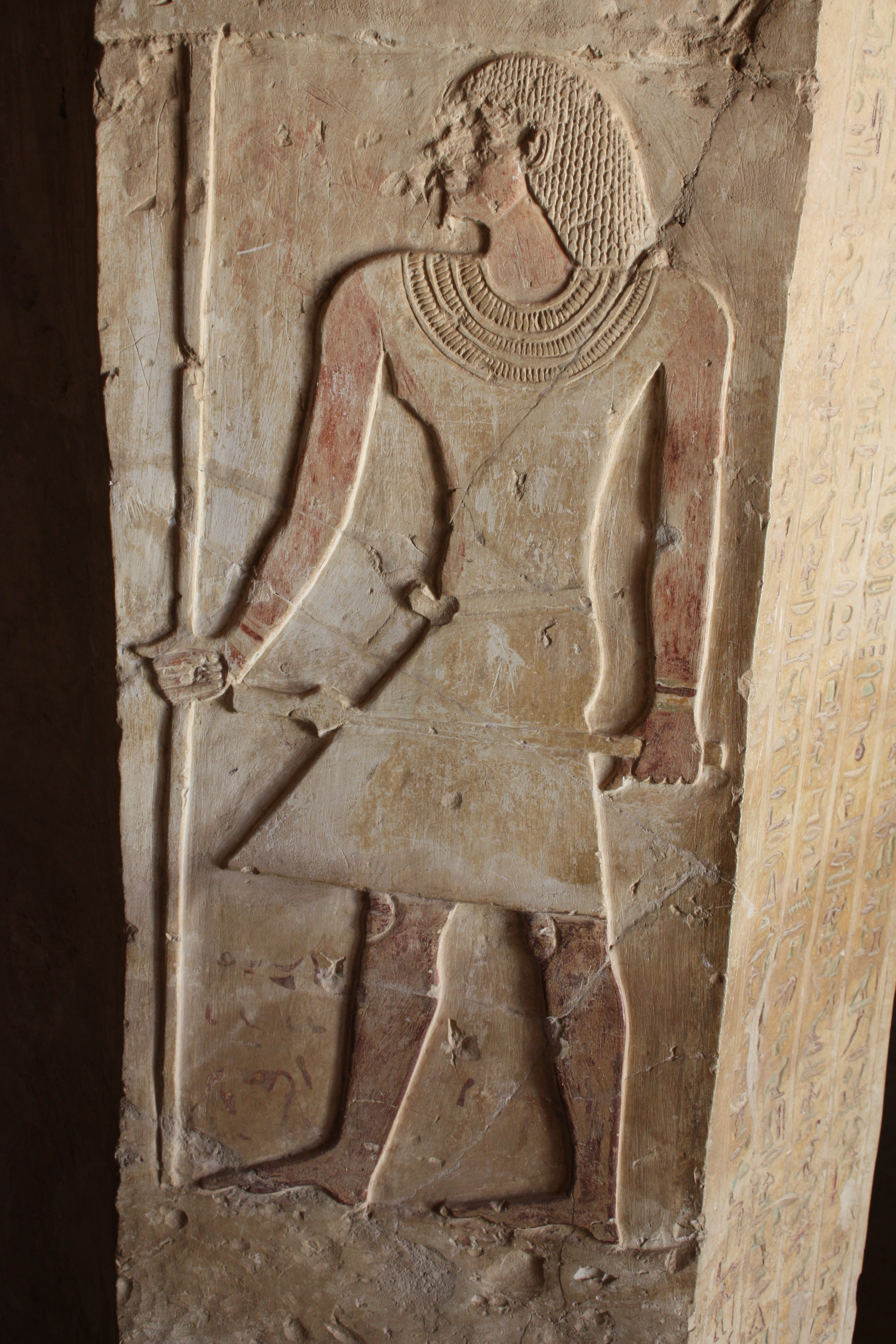 Tomb of Anchtifi